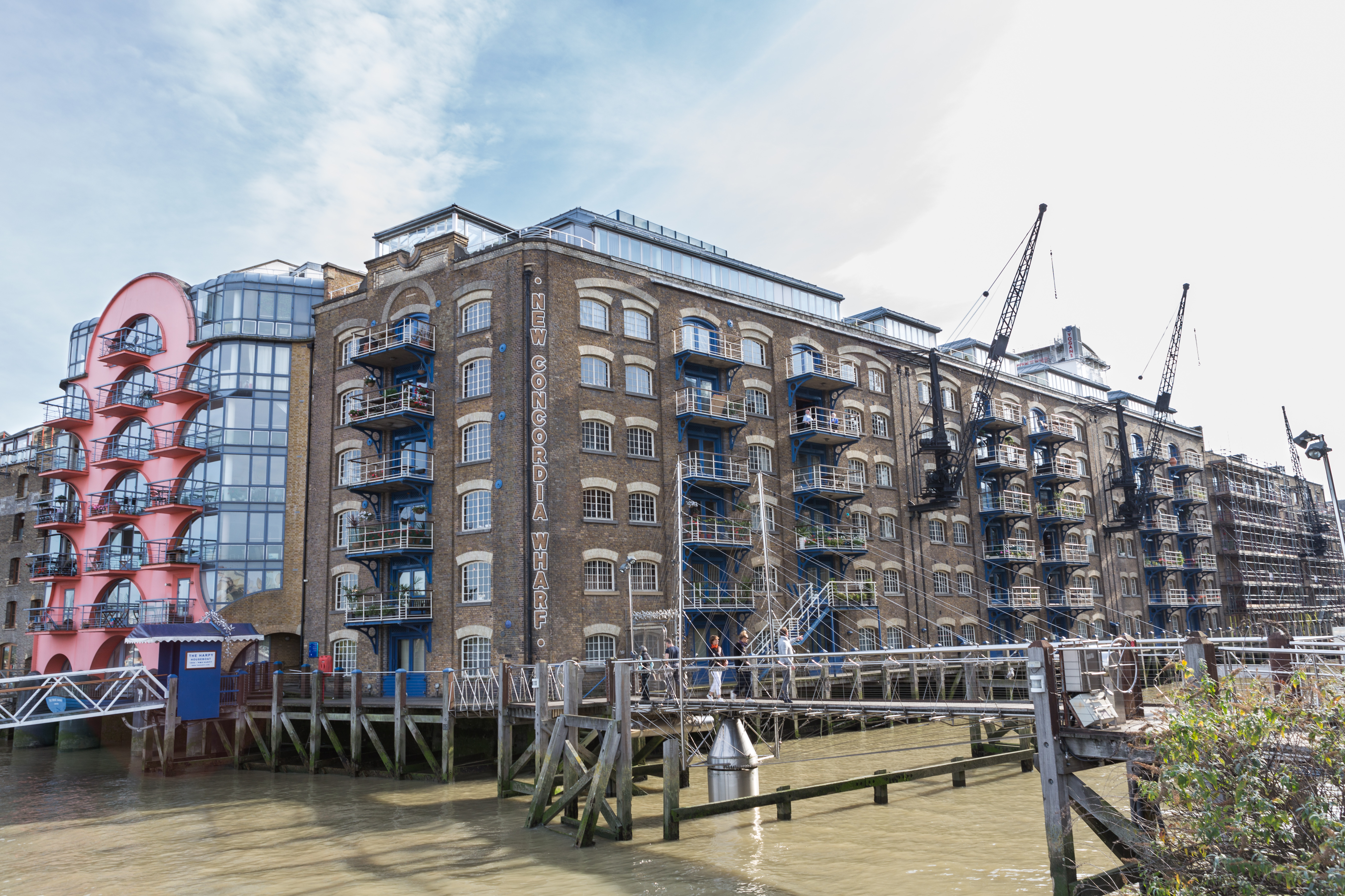 New Concordia Wharf, St Saviours Dock Range Wikidata has entry Q26665477 with data related to this item.